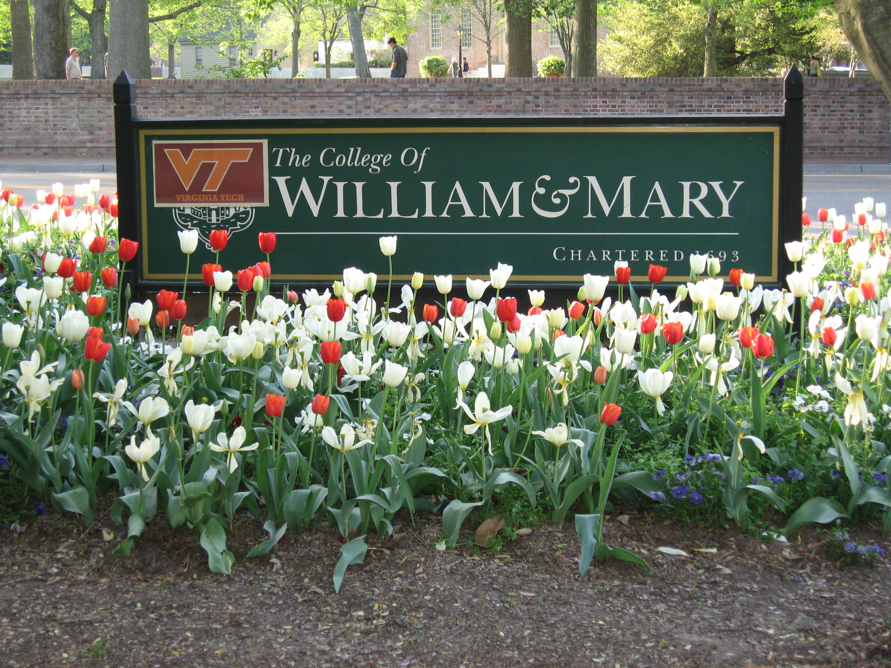 A sign near "Confusion Corner" at the College of William & Mary in Williamsburg, Virginia, USA.